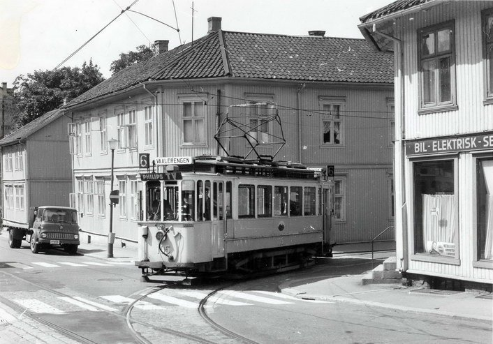 SS-tram no 105 turining into Vålerenggata from Ingeborgs gate.